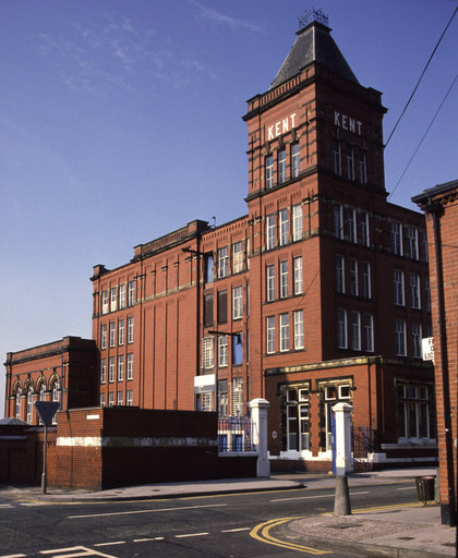 Kent mill in Victoria Street, Chadderton, Greater Manchester, England. Cotton spinning mill built in 1908 by Kent Mill Ltd and latterly part of the Courtaulds Group. Architect was G Stott. 104,000 spindles. 1200 horsepower George Saxon steam engine. Mill closed 1991 and demolished 1994. The adjoining Manor Mill is still standing.